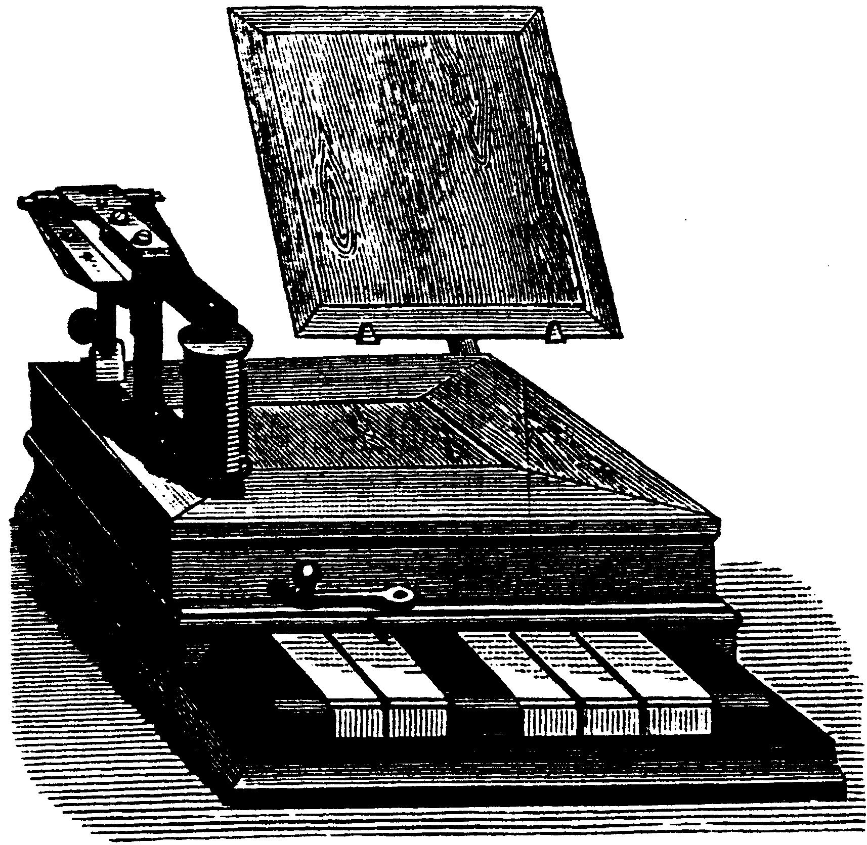 Emile Baudot five keys telegraph keyboard